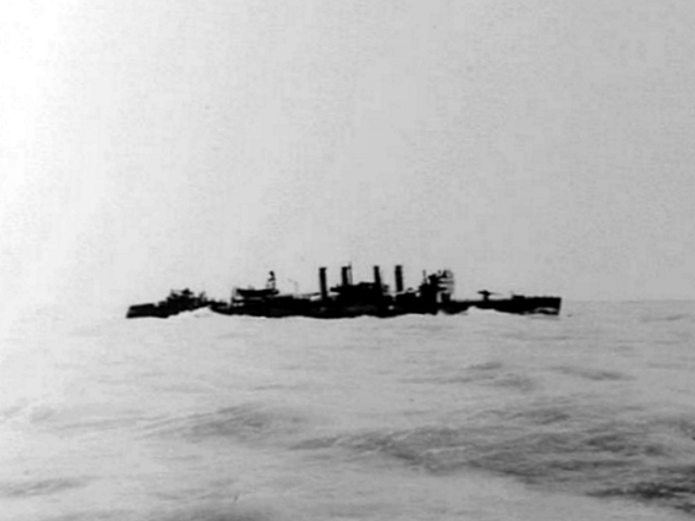 The U.S. Navy Clemson-class destroyer USS Peary (DD-226) in the Timor Sea in February 1942. The photo was taken from the Grimsby-class sloop HMAS Swan (U74) and was probably taken during the abortive Koepang voyage.